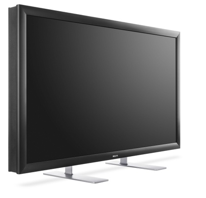 Philips 3D Television 42-inch